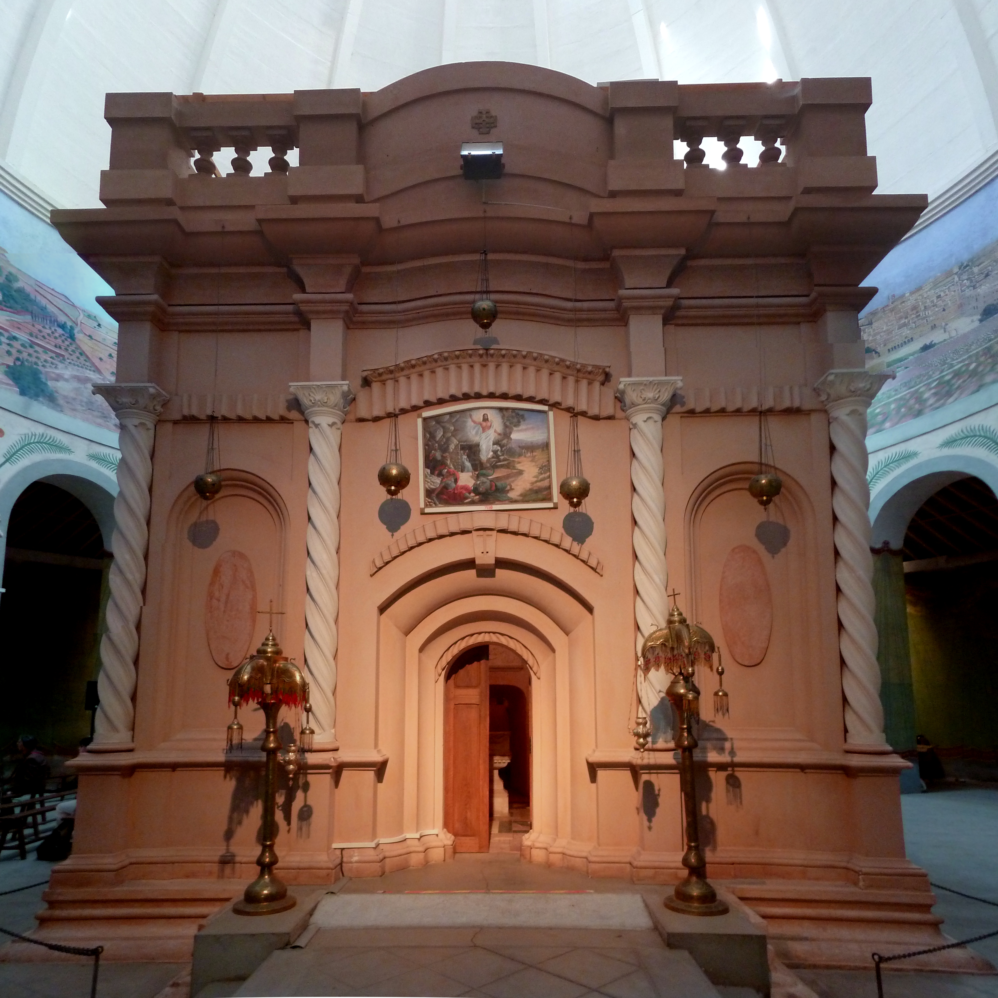 Aedicule of the church of the Holy Sepulchre in the town of Angers, Maine-et-Loire, Pays de la Loire, France.